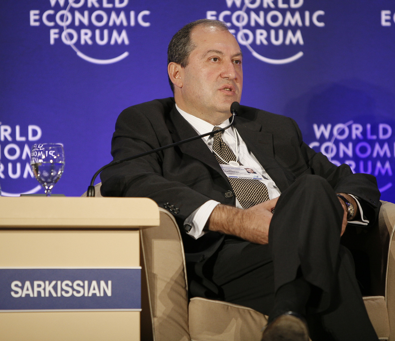 Armen Sargsyan, Prime Minister of Armenia 1996–1997, at the World Economic Forum on Europe and Central Asia in Istanbul, Turkey.